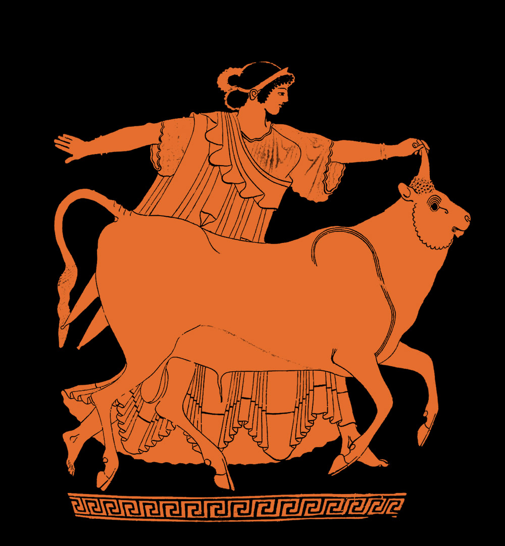 Europa and the Bull - Red-Figure Stamnos, Tarquinia Museum, circa 480 BC